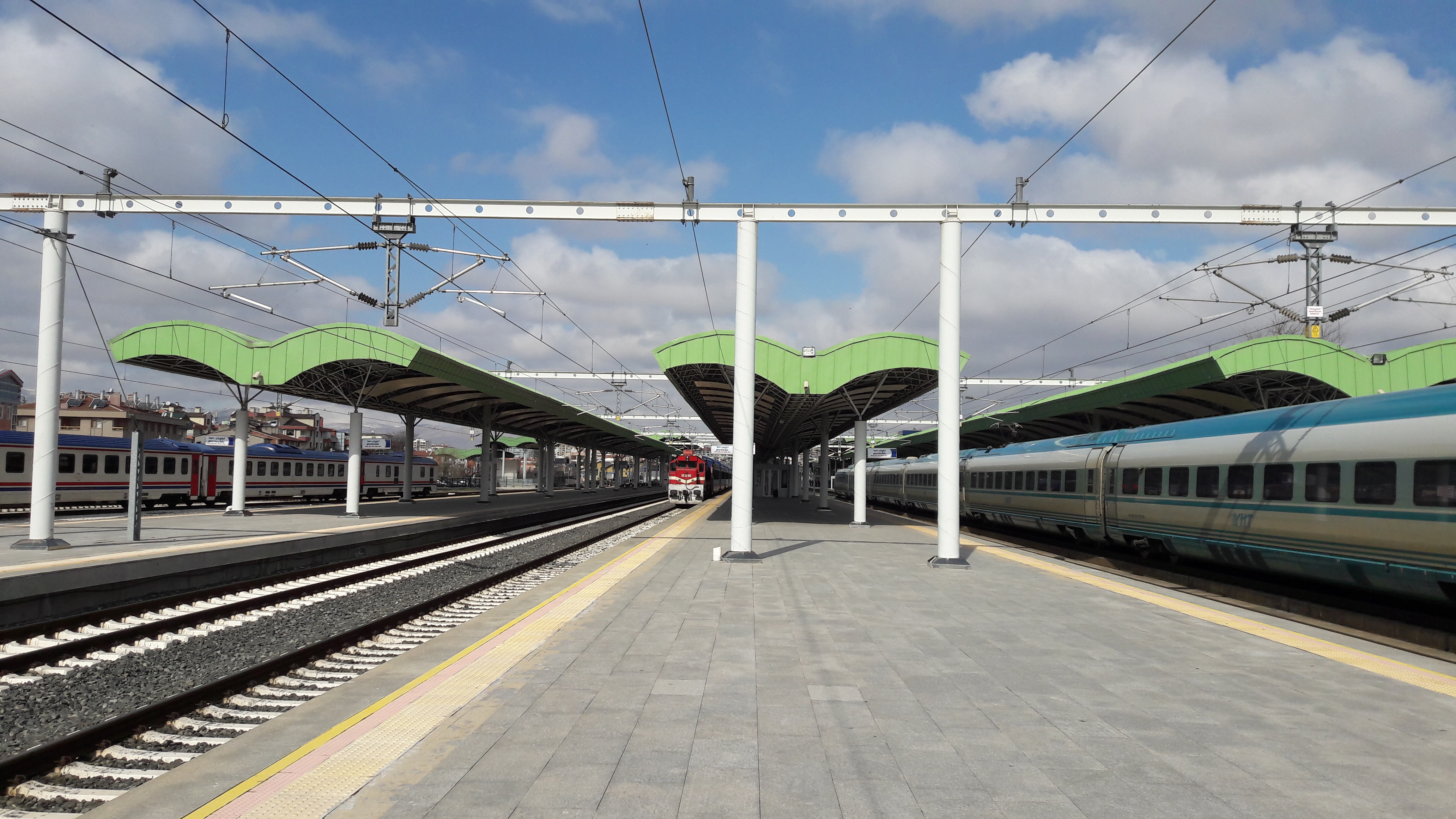 Konya railway station, looking north, (toward Polatli) with a high-speed train to the right and the Taurus Express to the left.